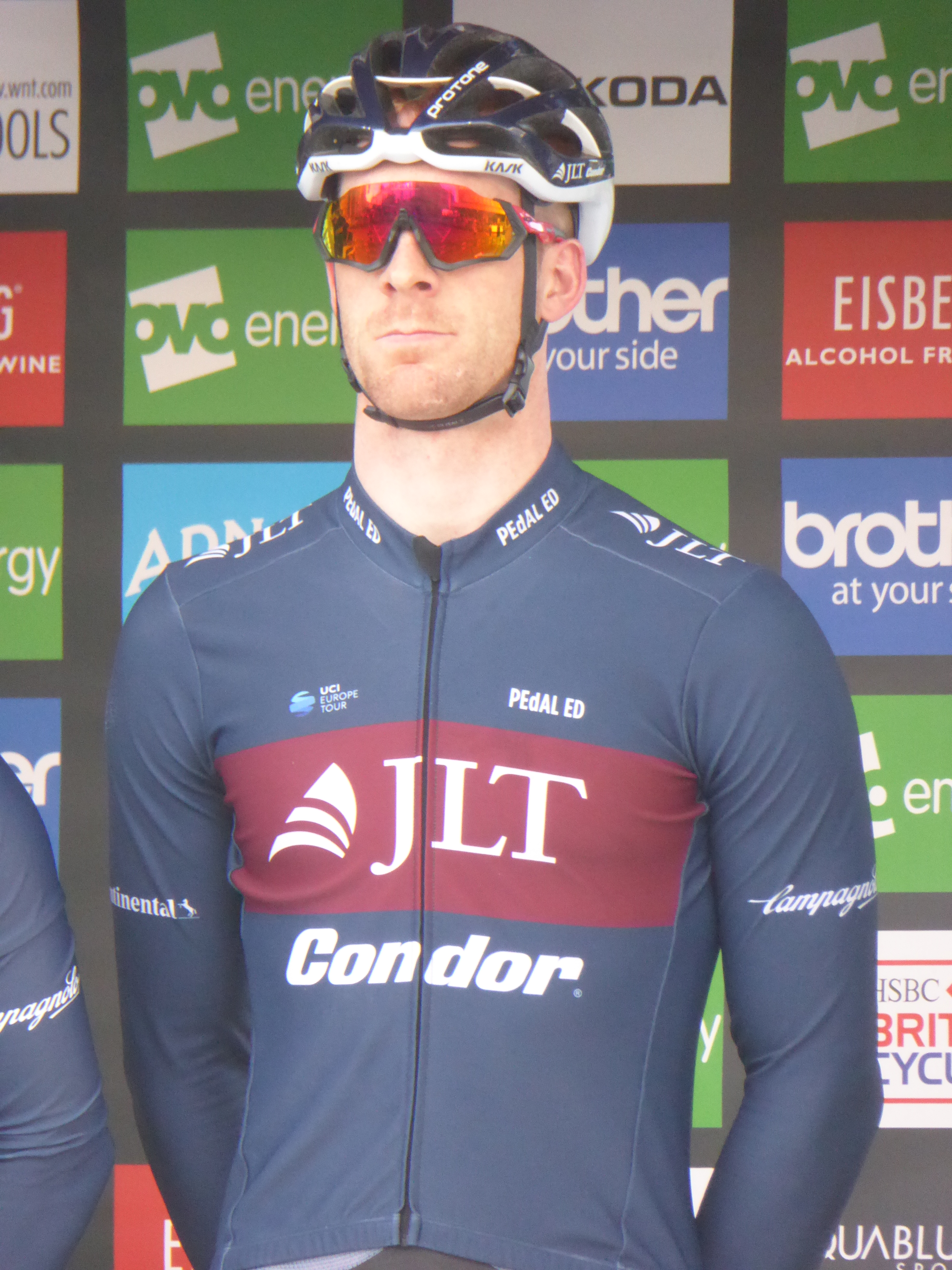 Ed Clancy (JLT Condor), prior to Round 3 of the 2018 Tour Series in Aberdeen.